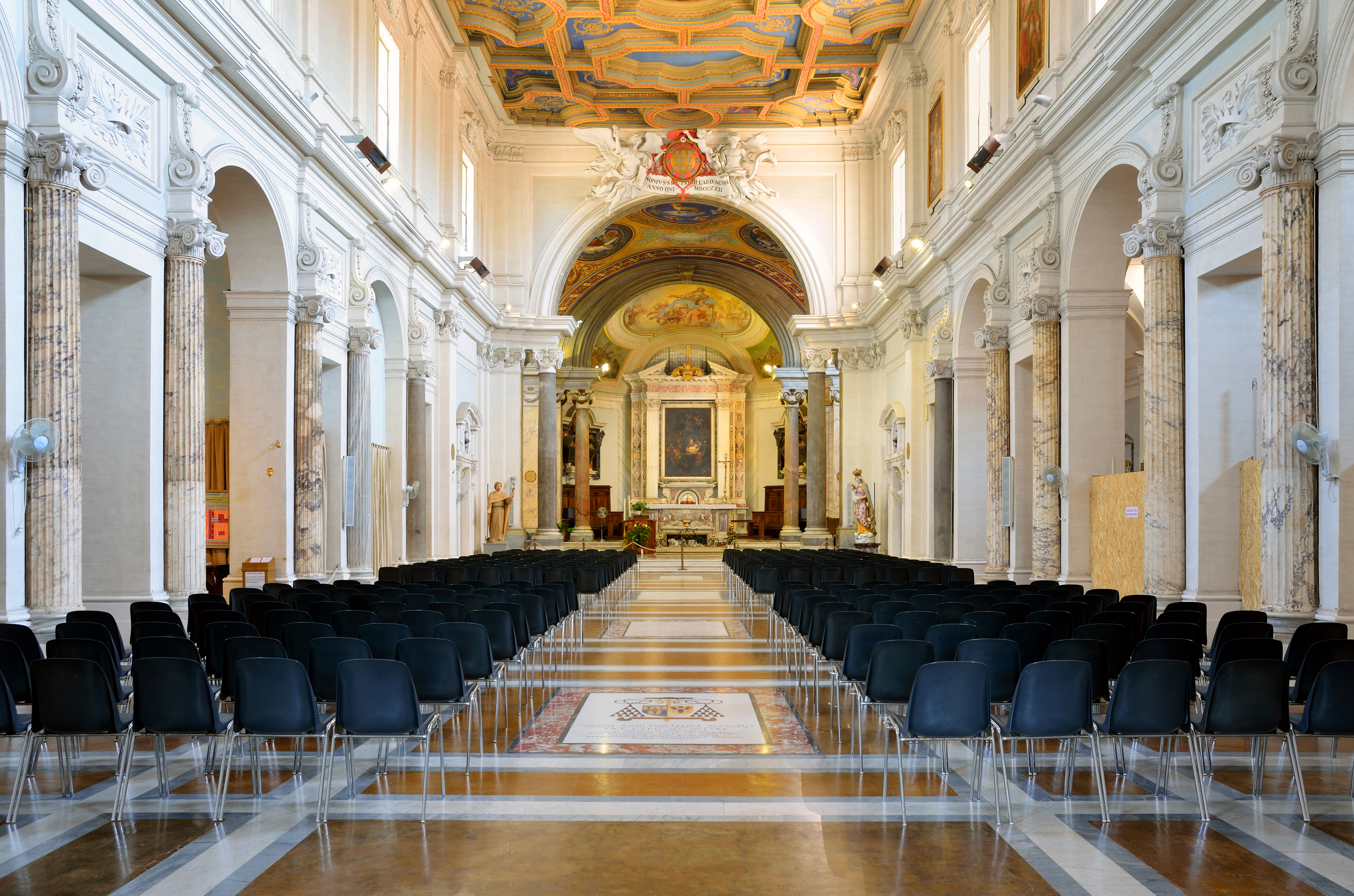 Basilica di Sant'Anastasia al Palatino (Rome) - Intern